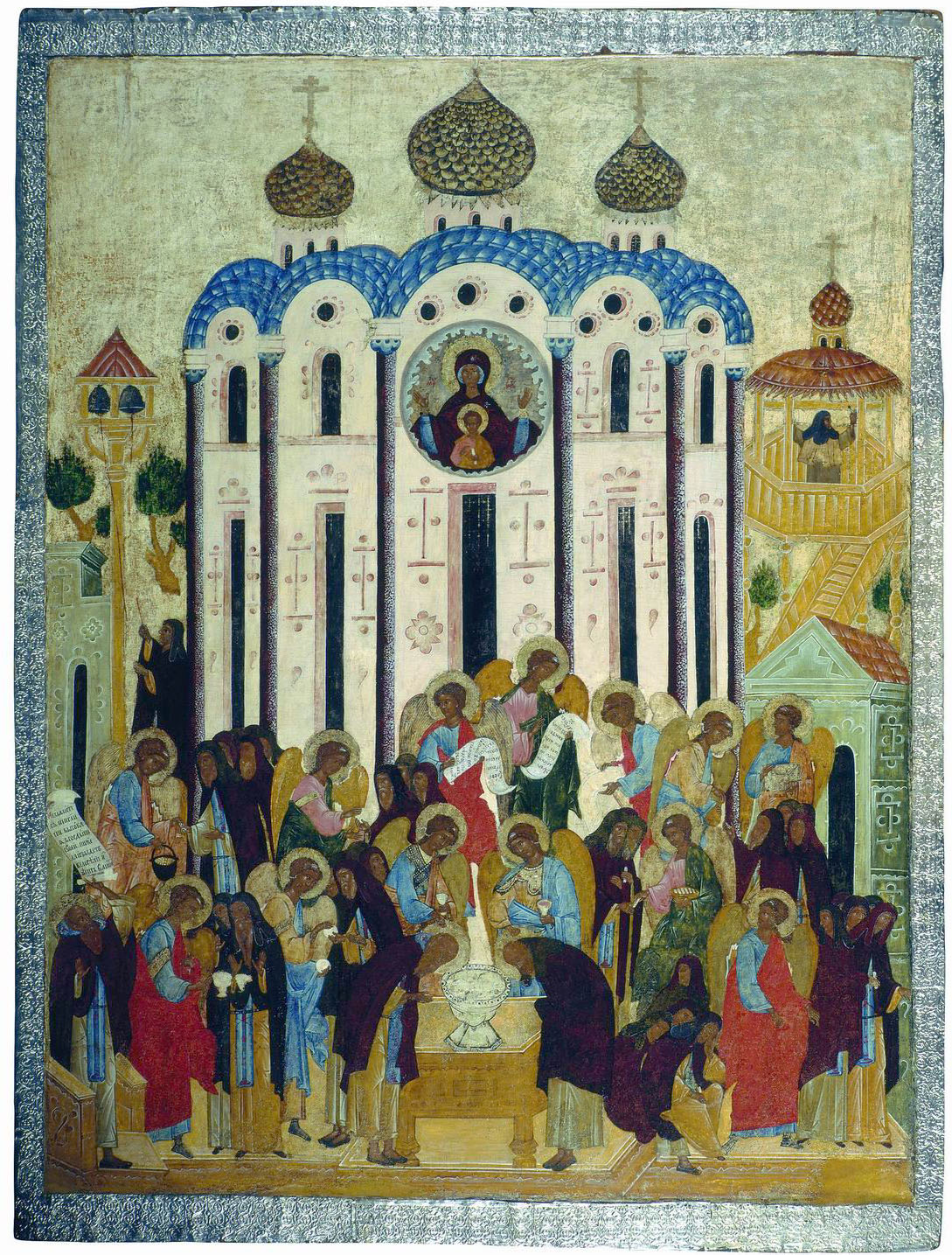 Vision of Eulogius .